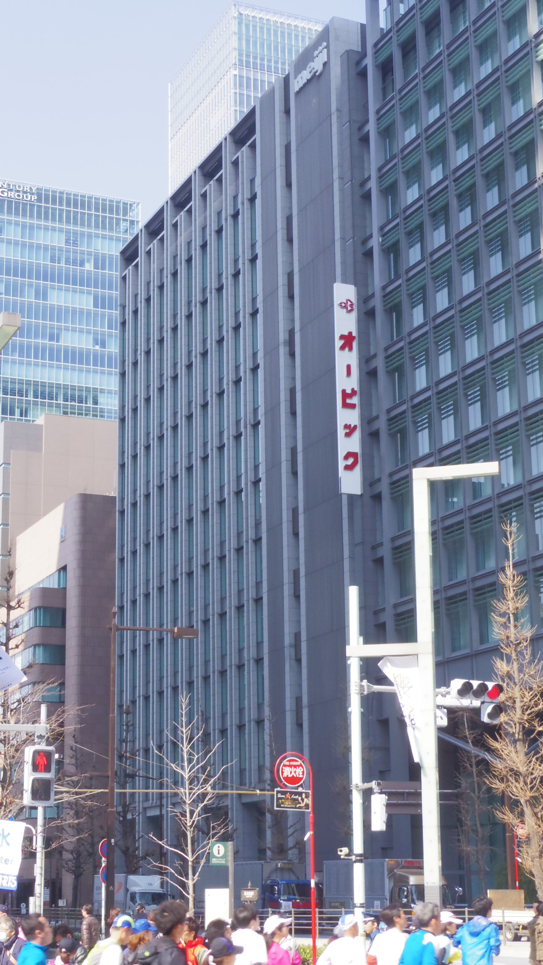 Headquarters of Meiji Holdings and Meiji Seika Pharma in Kyobashi, Tokyo, Japan